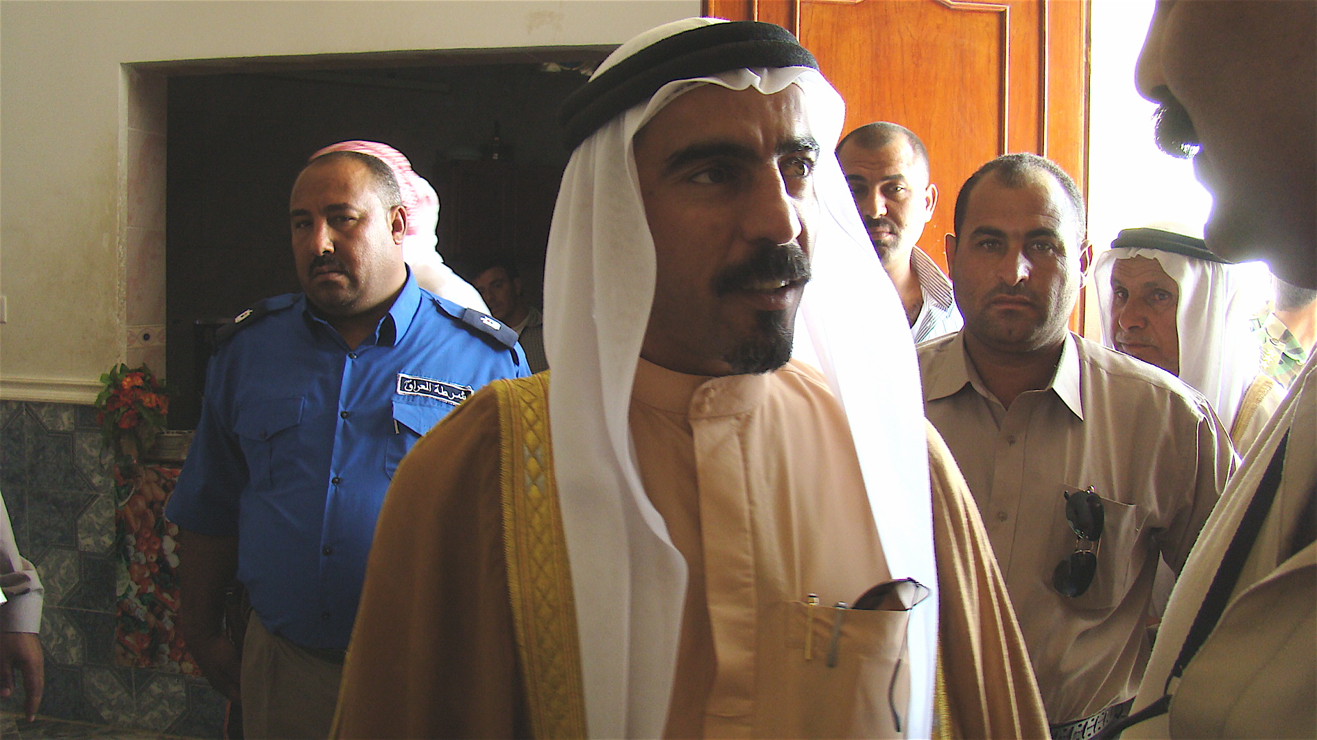 Sheik Sattar at his residence in Ramadi, shortly before his death